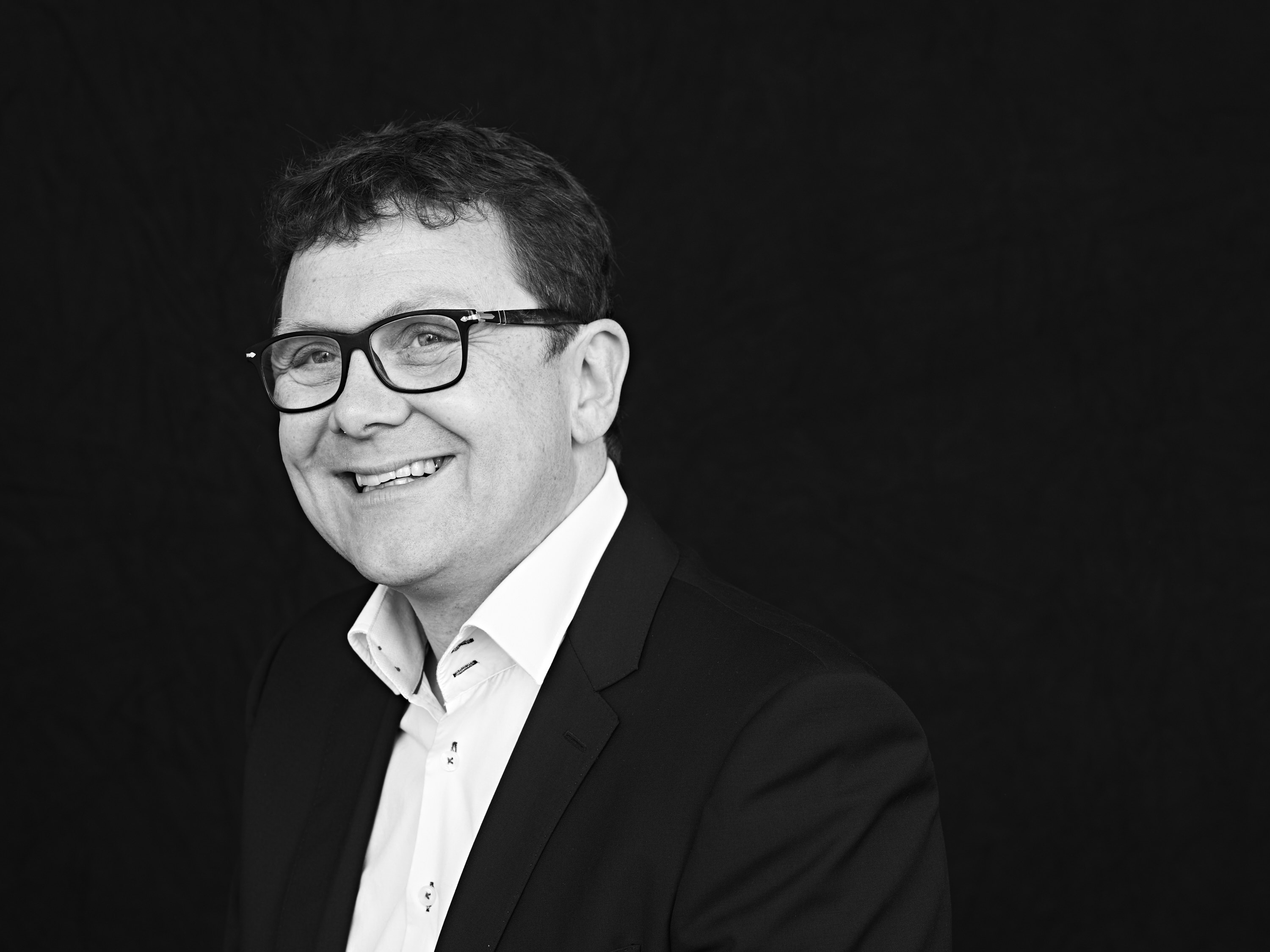 HyperFocal: 0